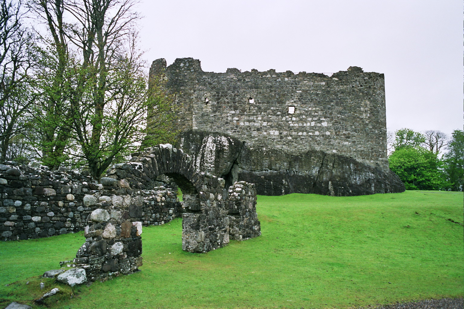 South face of Dunstaffnage Castle, near Oban, Scotland.